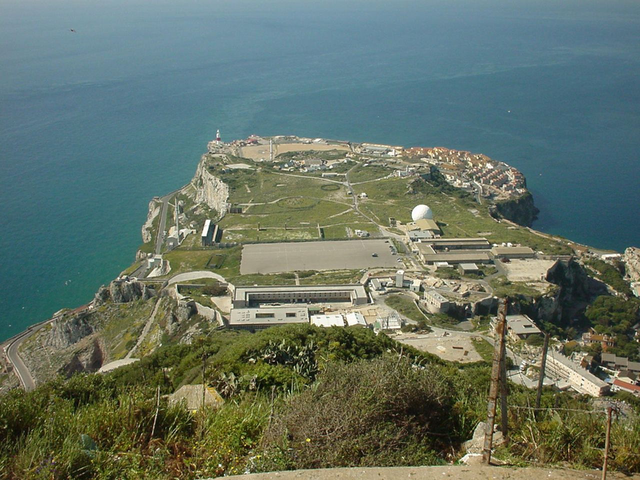 View of Europa Point and Windmill Hill above it from the Rock of GIbraltar. The Royal Gibraltar Regiment's Buffadero Training Centre can be seen in the centre of the image atop Windmill Hill.